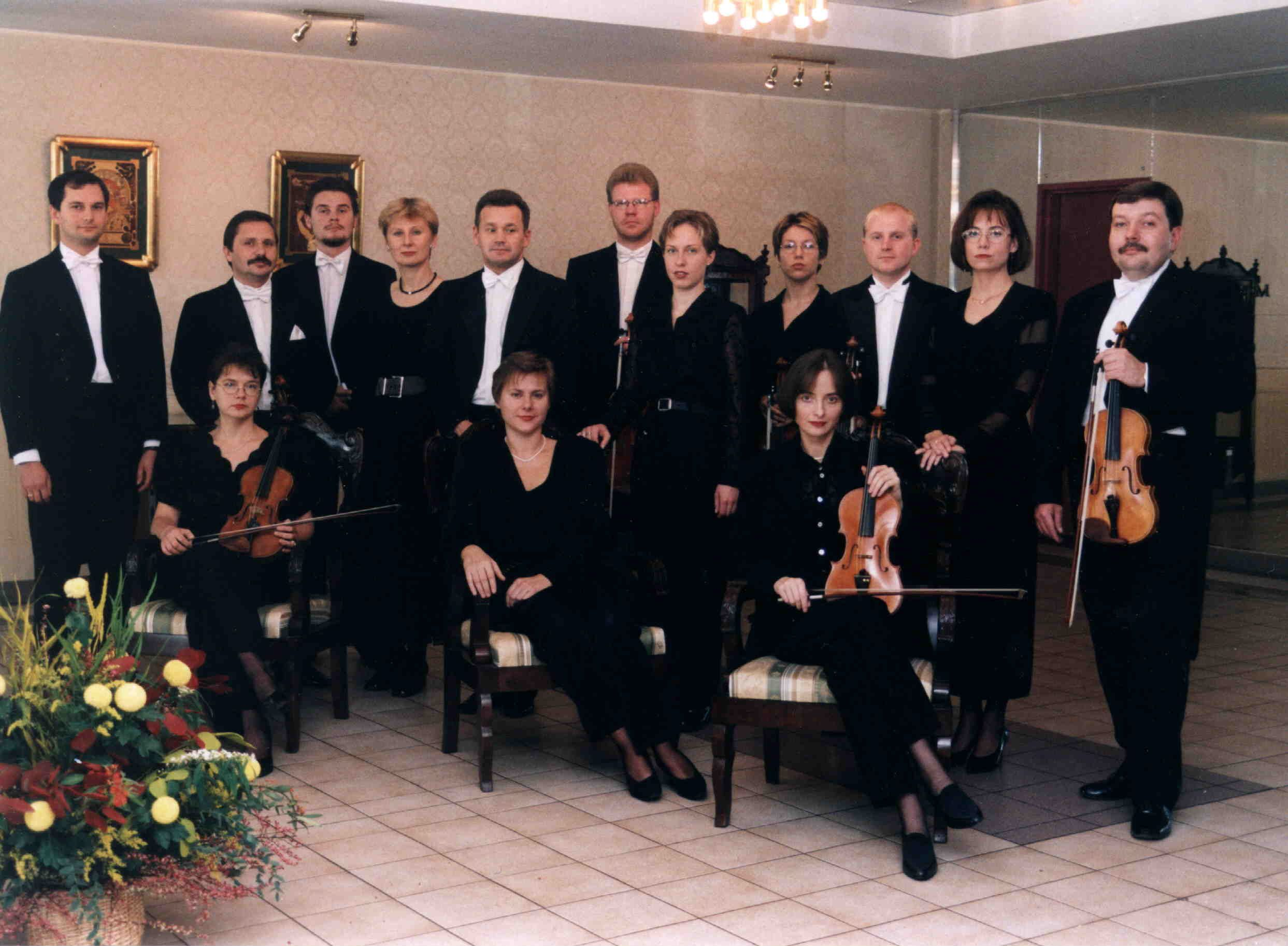 Orkiestra Kameralna Wratislavia, 1998